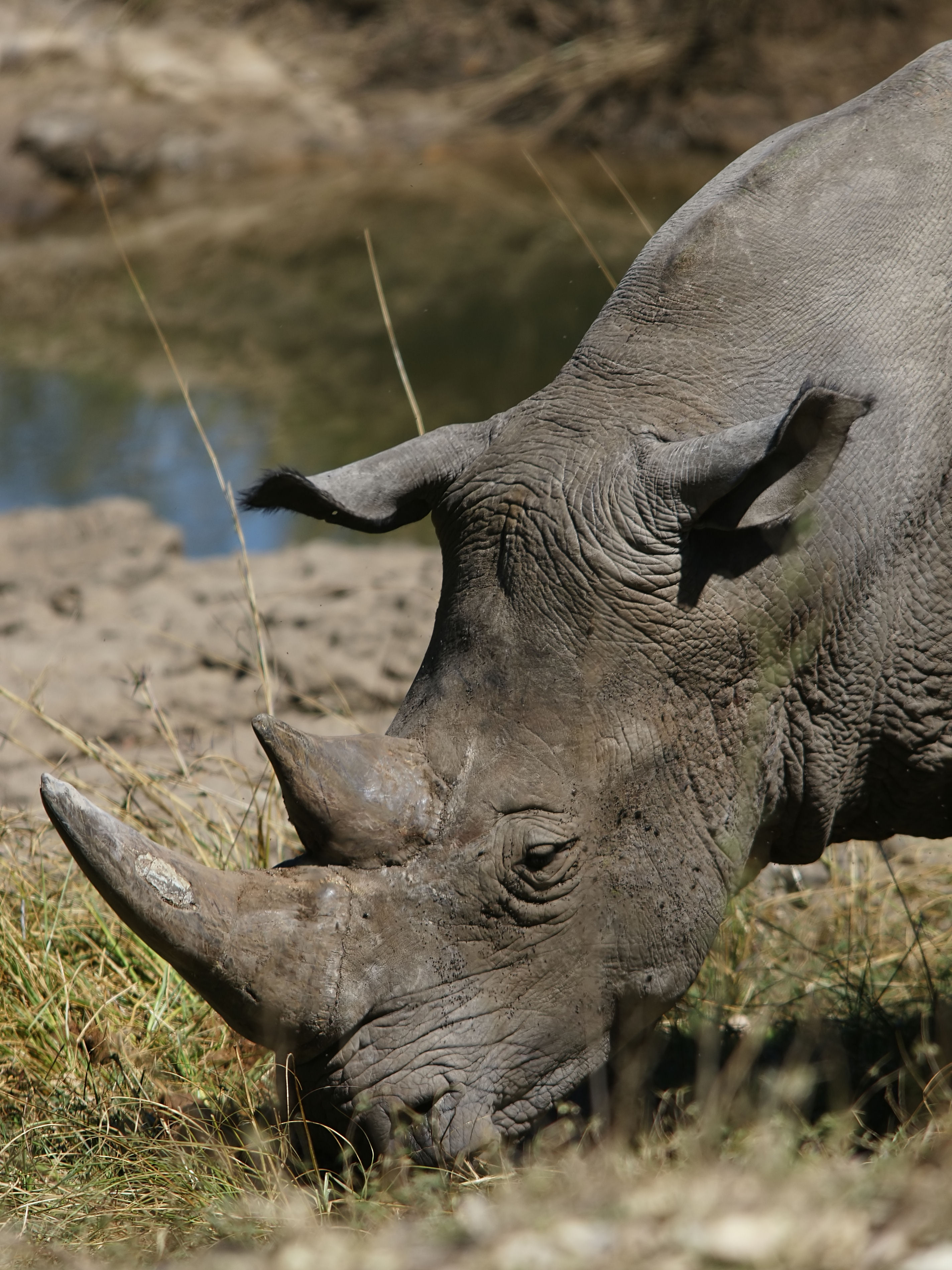 Male White rhino at Mosi-oa-Tunya national park, Livingstone, Zambia.